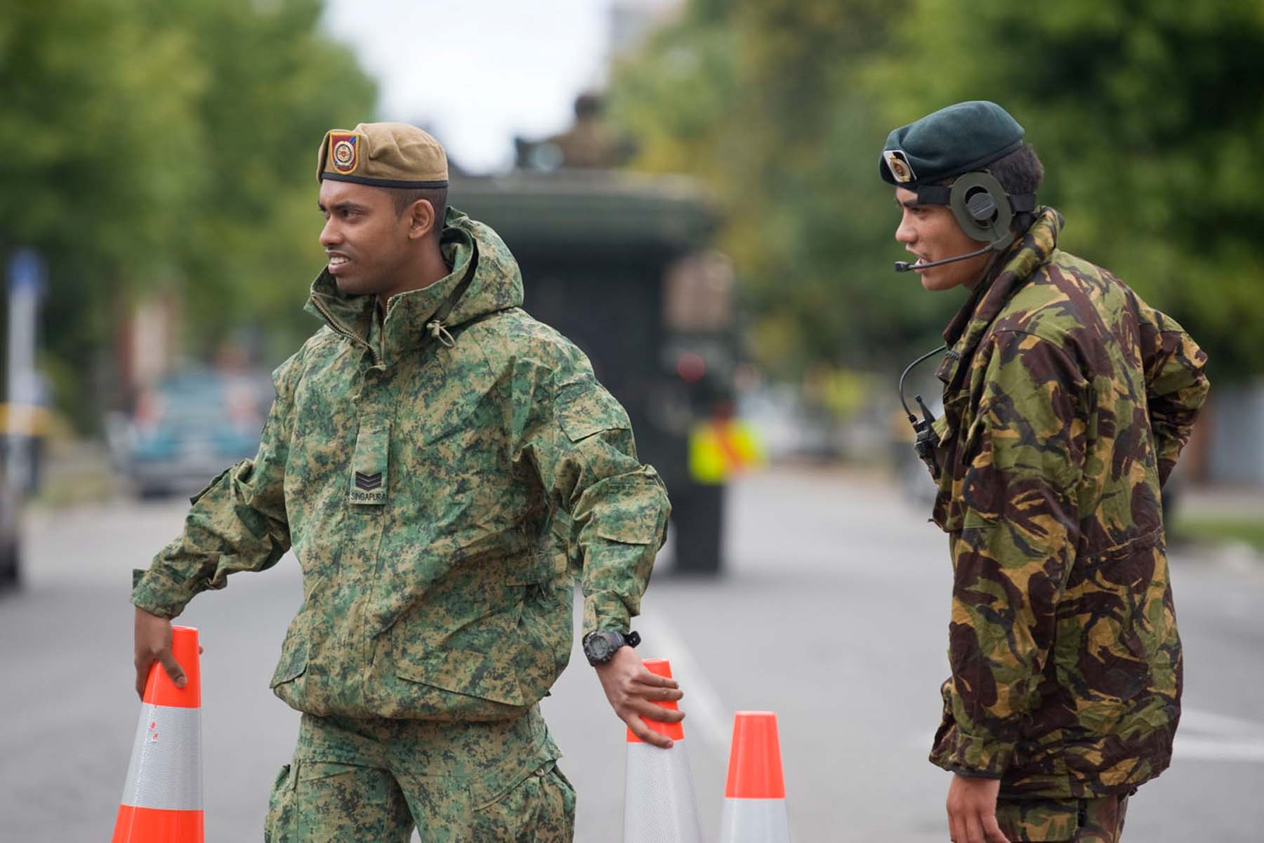 NZ Army and Singapore Armed Forces personnel provide support to the Christchurch Earthquake Operation by providing cordons around the city's CBD. Crown Copyright 2011, NZ Defence Force – Some Rights Reserved.